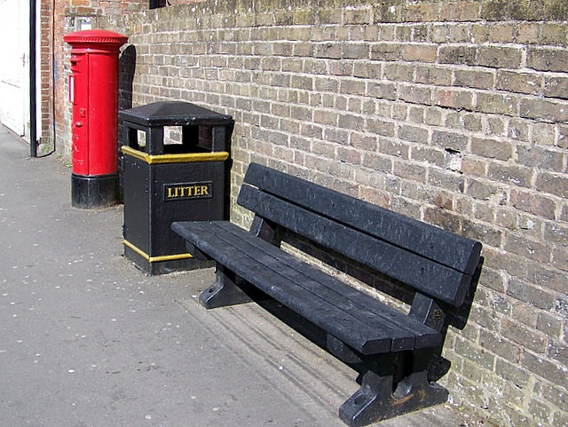 Street furniture, Warminster Street furniture on George Street.